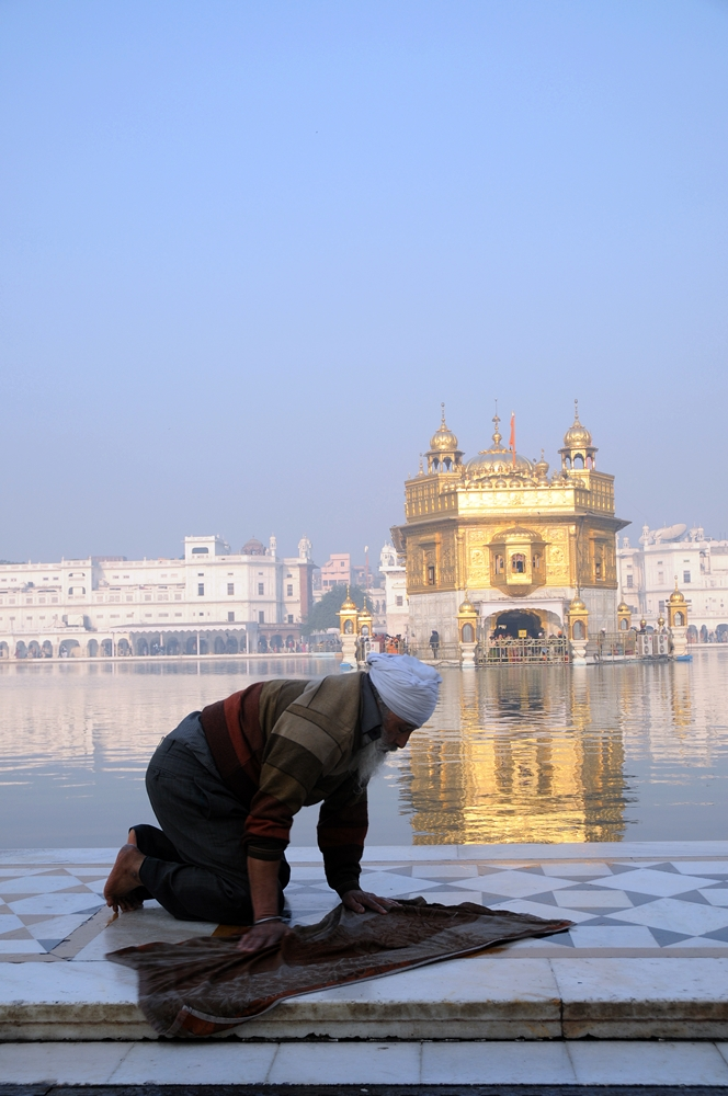 Kar Sewa, literally meaning voluntary service is an integral part of Sikh Religion. ‘Sarbat da Bhala’ meaning common good of all is one of the foundamental principles of the Sikhism. Sharing bread, reaching out to the poor and needy and performing voluntary service to the society are as fundamental to the faith as personal prayer, reading of scriptures and attending communal prayers. In many Gurudwars it is common to see well to do and even affluent people voluntarily performing menial tasks like taking care of the shoes of the visitors, helping in preparing the communal meals, cleaning the premises , etc. Here a devotee is sweeping and scrubbing the floor of the parikrama around the Darbar Sahib at Amritsar.